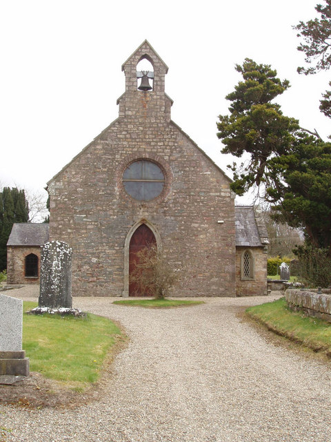 Ardcolm Church of Ireland in Castlebridge The hamlet of Ardcolm is a mile to the south-east, but after unification of parishes the church in Castlebridge was built to replace one in Ardcolm. It was built in 1766. It is in the Wexford Union and Kilscoran Union of Parishes. There is a service on the 5th Sunday of the month (if there is one). See website for the Anglican Diocese of Ferns.